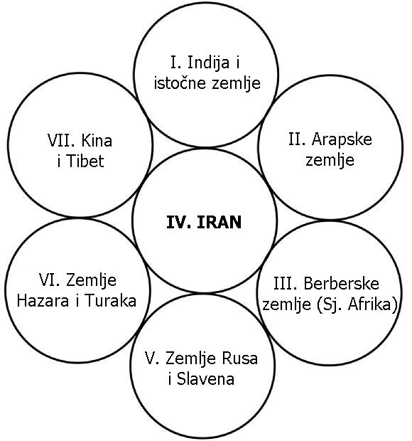 Keshvars ("seven regions") according late Sassanid and early Islamic period, adapted from Bīrūnī, Tafhim, with Croatian description